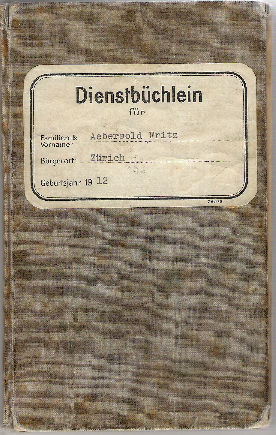 old Military service log book of the Swiss Army